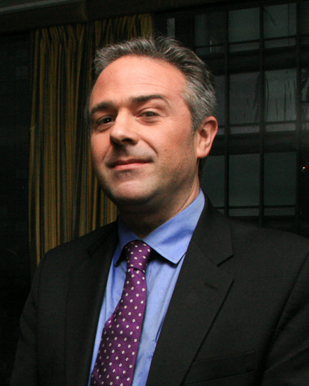 Edward Luce at book party. Photo credit: Grace Villamil